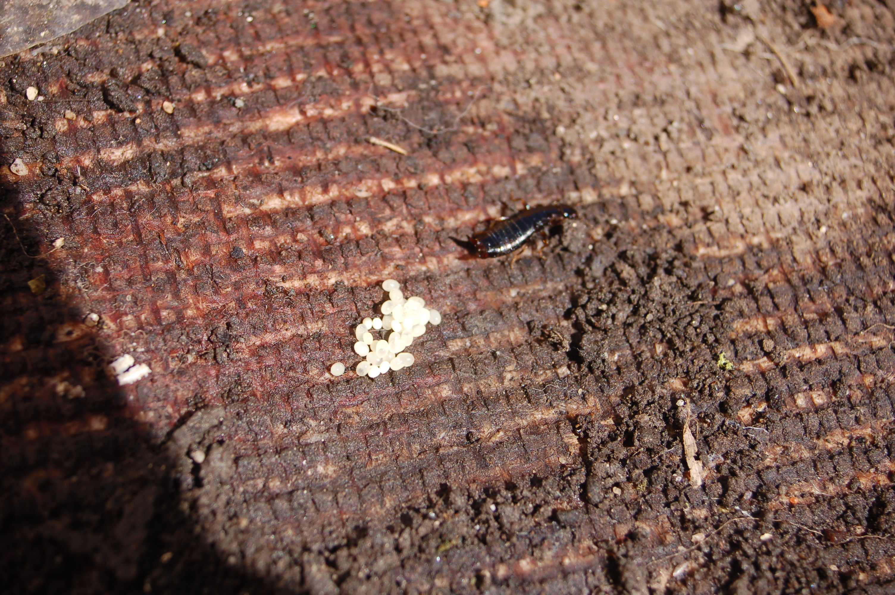 A female earwig (Forficula auricularia) and eggs.